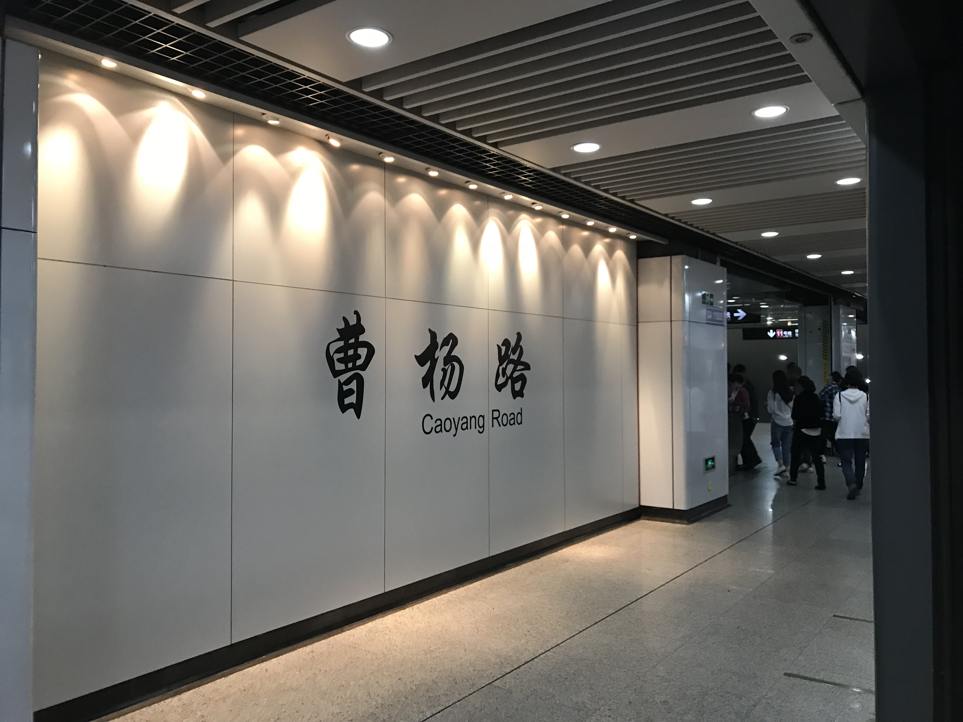 201805 Nameboard of L11 Caoyang Road Station